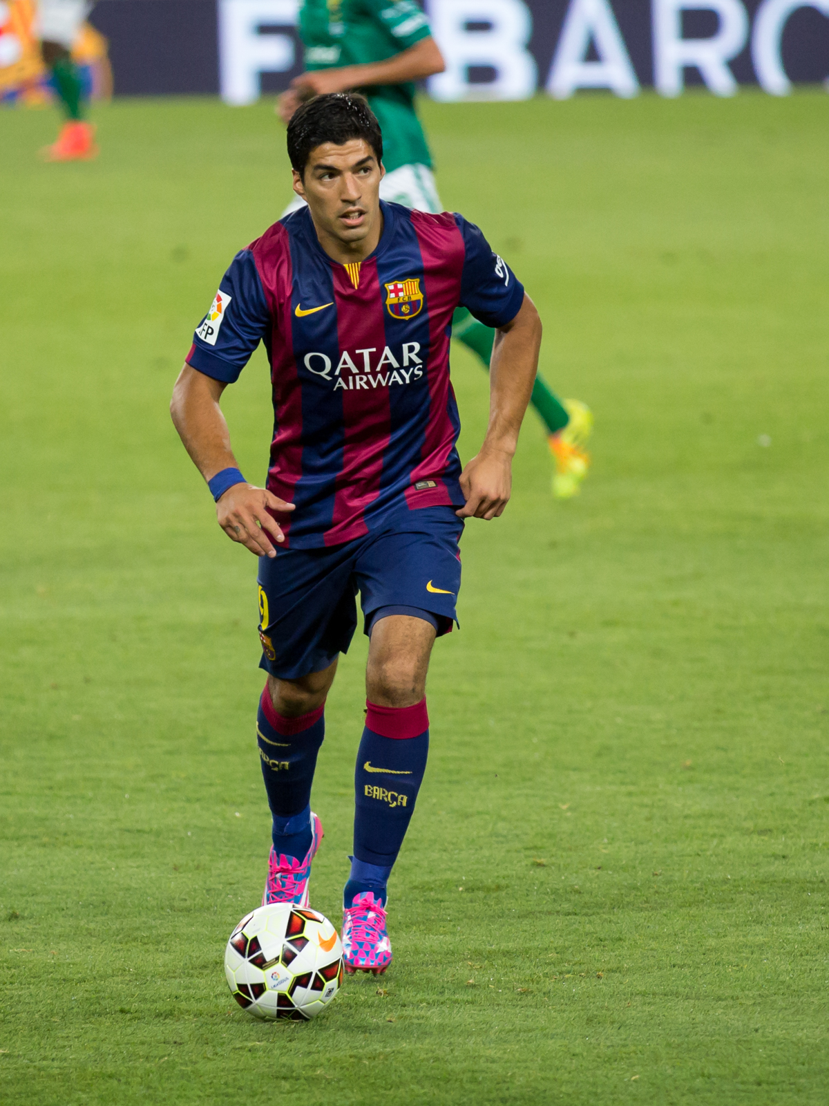 Luis Suarez playing for FC Barcelona in a match against Club León.